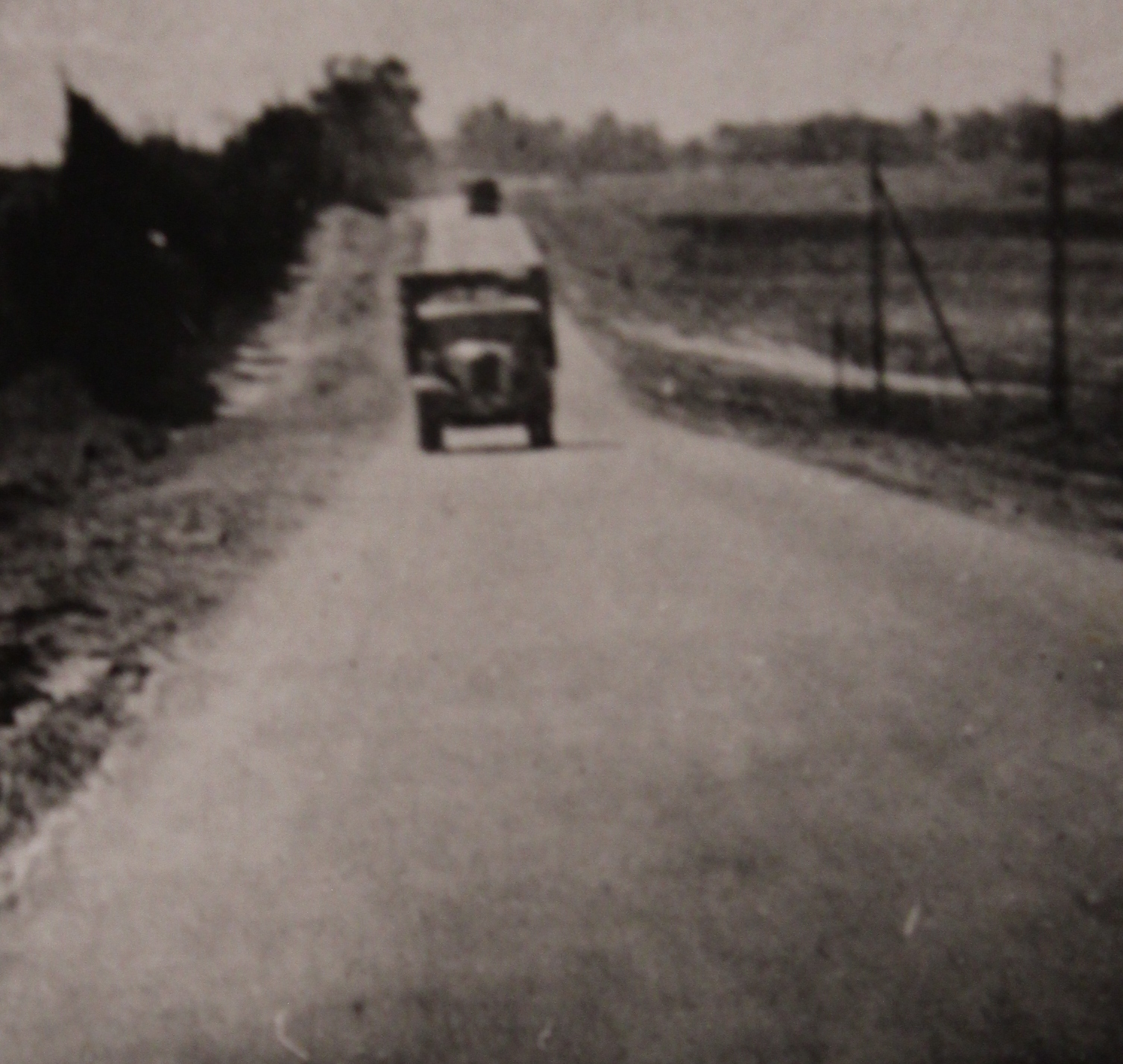 The Lehi Museum, also known as Beit Yair, is placed in the house where the Lehi commander, Avraham Stern (Yair) was assassinated. Including the room where Abraham Stern, Lehi commander, was murdered by a British policeman on 12/2/1942. The site's ID in Wiki Loves Monuments photographic competition is 3-5000-037